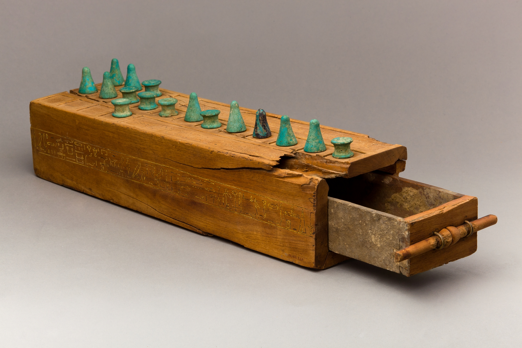 Senet board, Taia